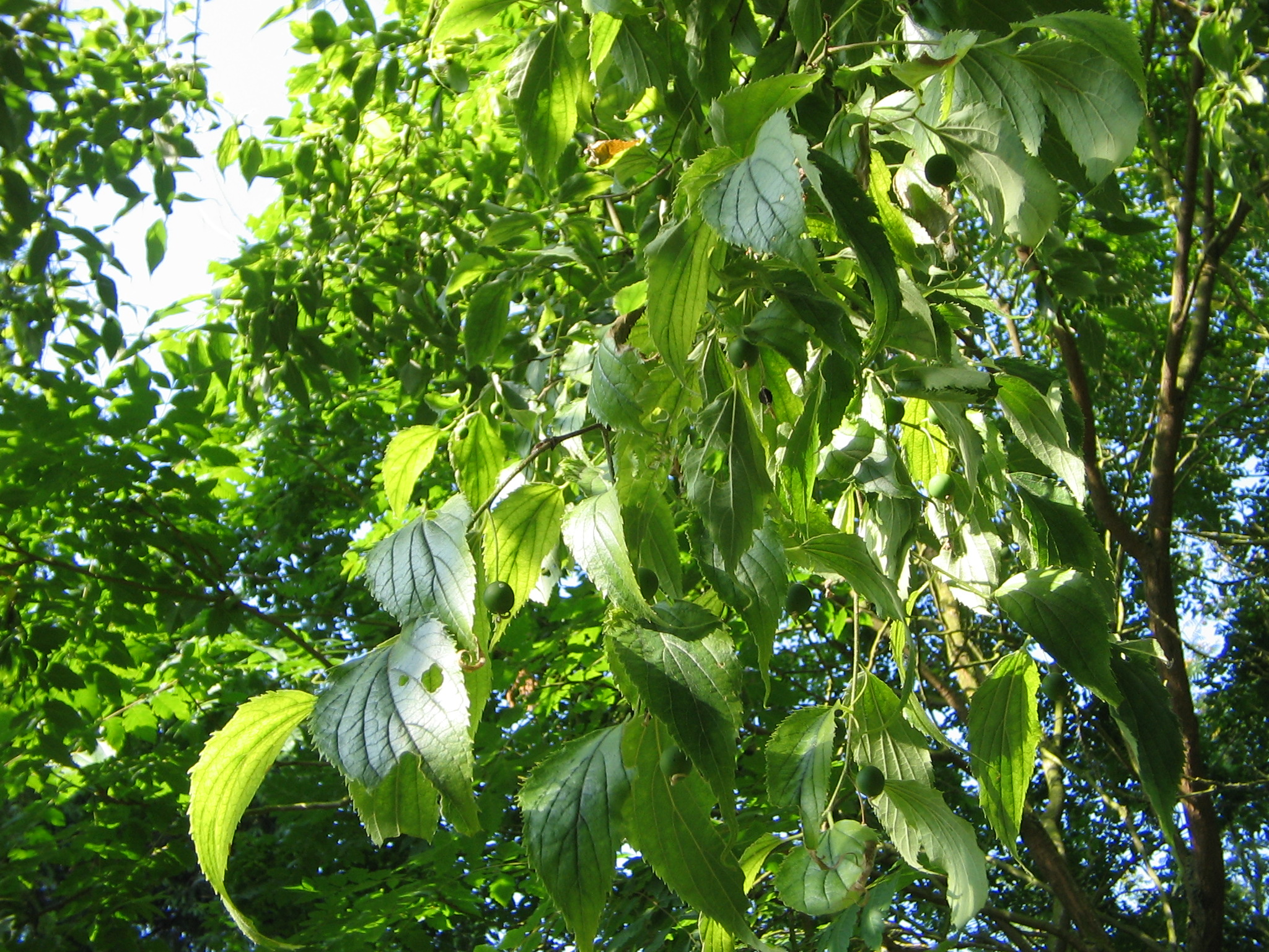 Celtis australis - young fruit